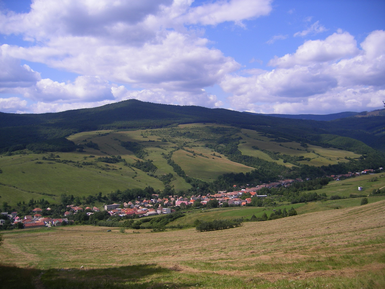 Pača - view of the village from east